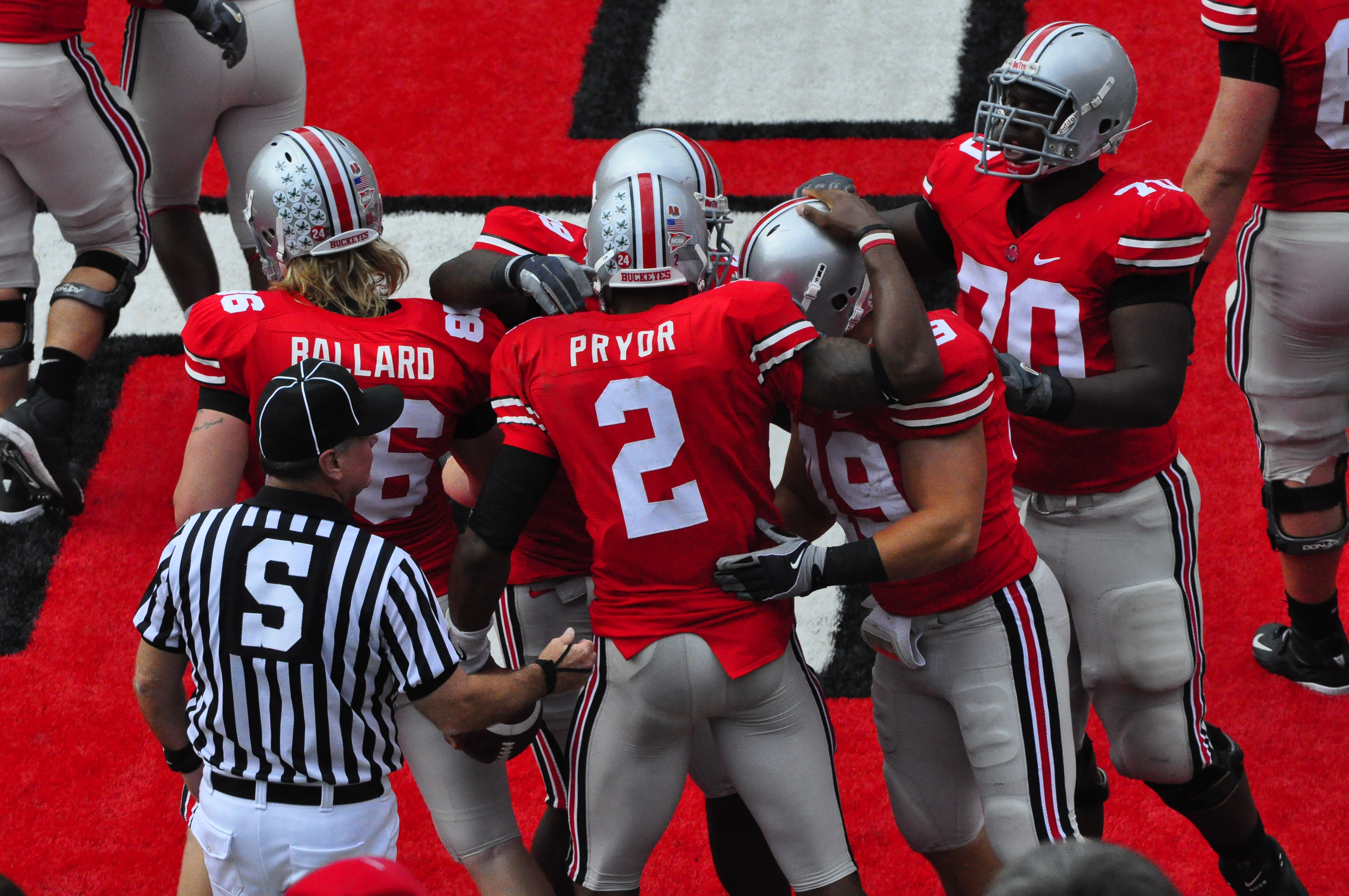 Ohio State quarterback Terrelle Pryor and teammates during the 2008 Minnesota game.